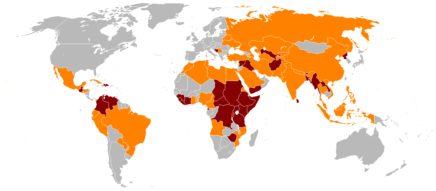 Failed State Index, 2005